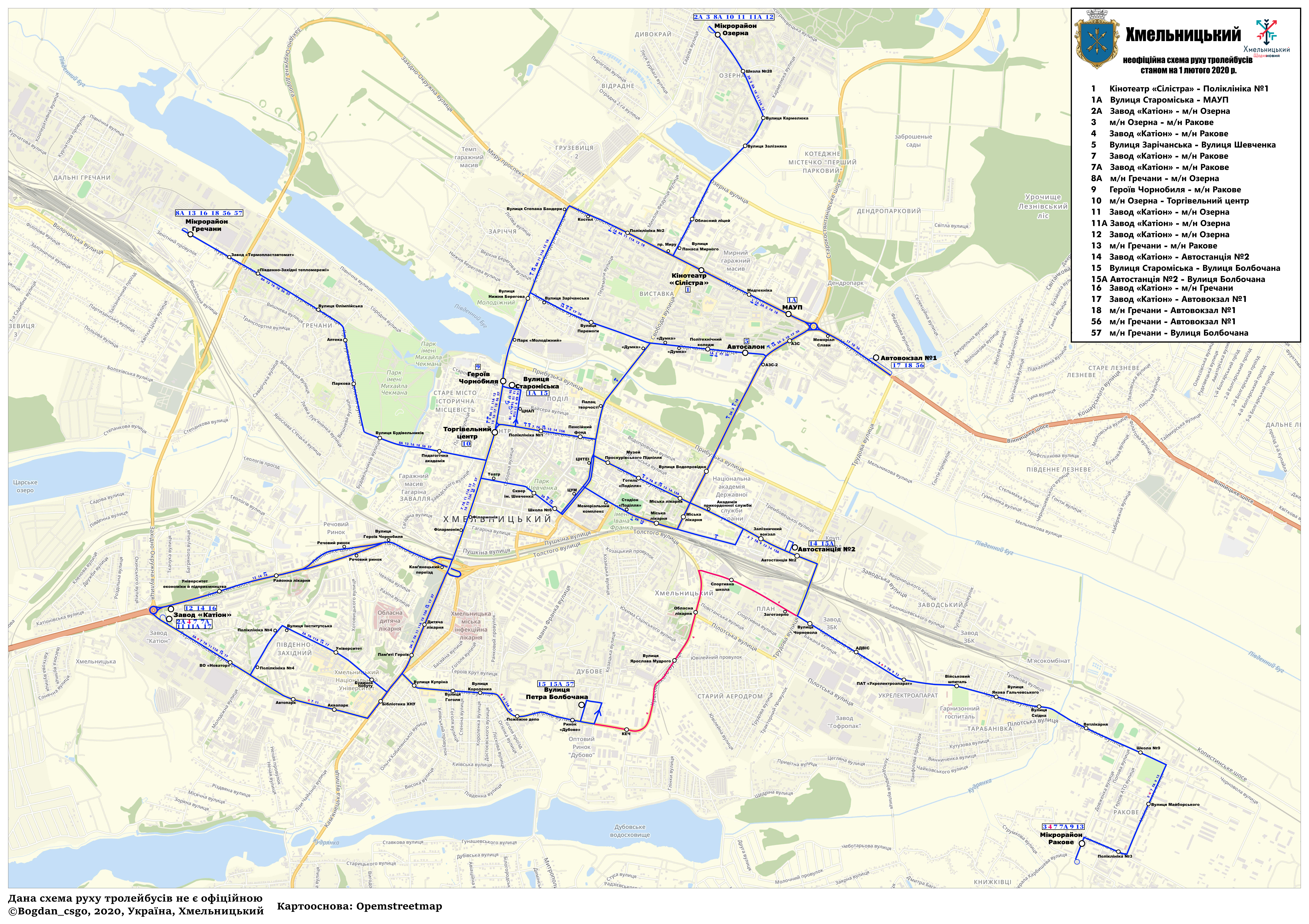 Unofficial scheme of trolleybuses in Khmelnytsky as of 02/01/2020